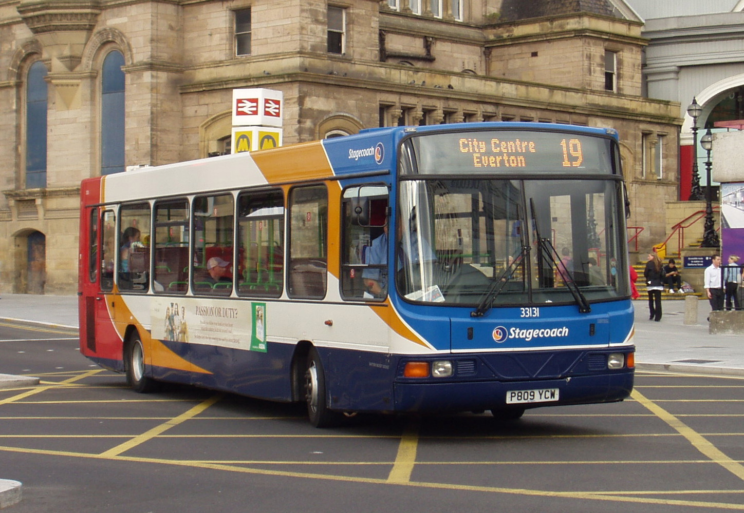 Dennis Dart SLF with Wright Crusader bodywork, Stagecoach Merseyside 33131 in Liverpool.